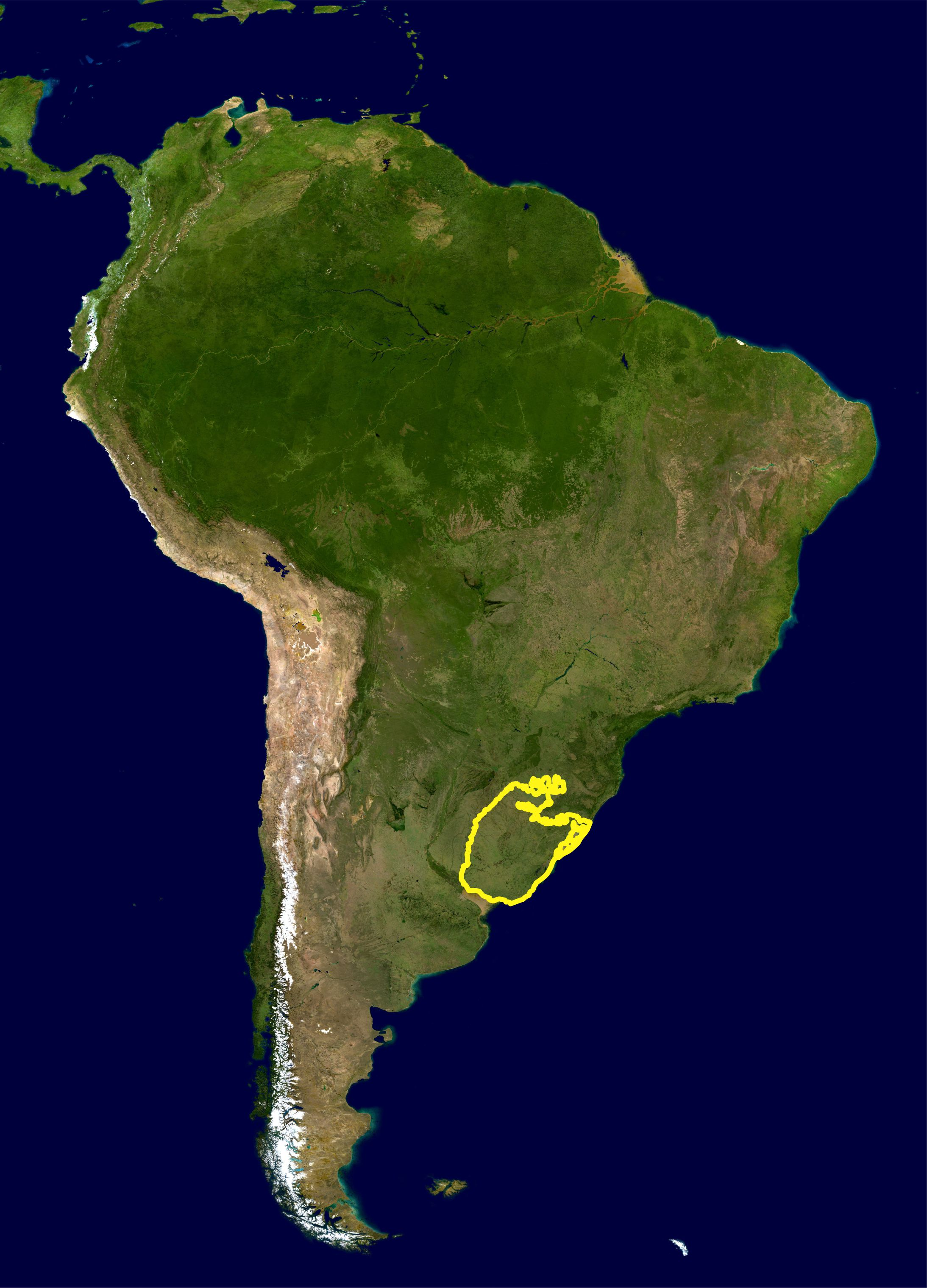 This is a map location of the Uruguayan savanna or Pampa. The yellow line encloses limits as delineated by the World Wide Fund for Nature. I, Miguelrangeljr, made it using NASA Blue Marble imagery and Corel Draw X6.